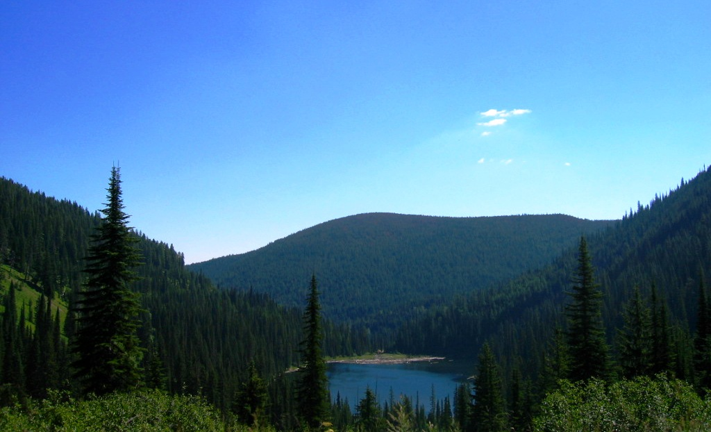 Bouchard Lake, north of Superior, Montana.